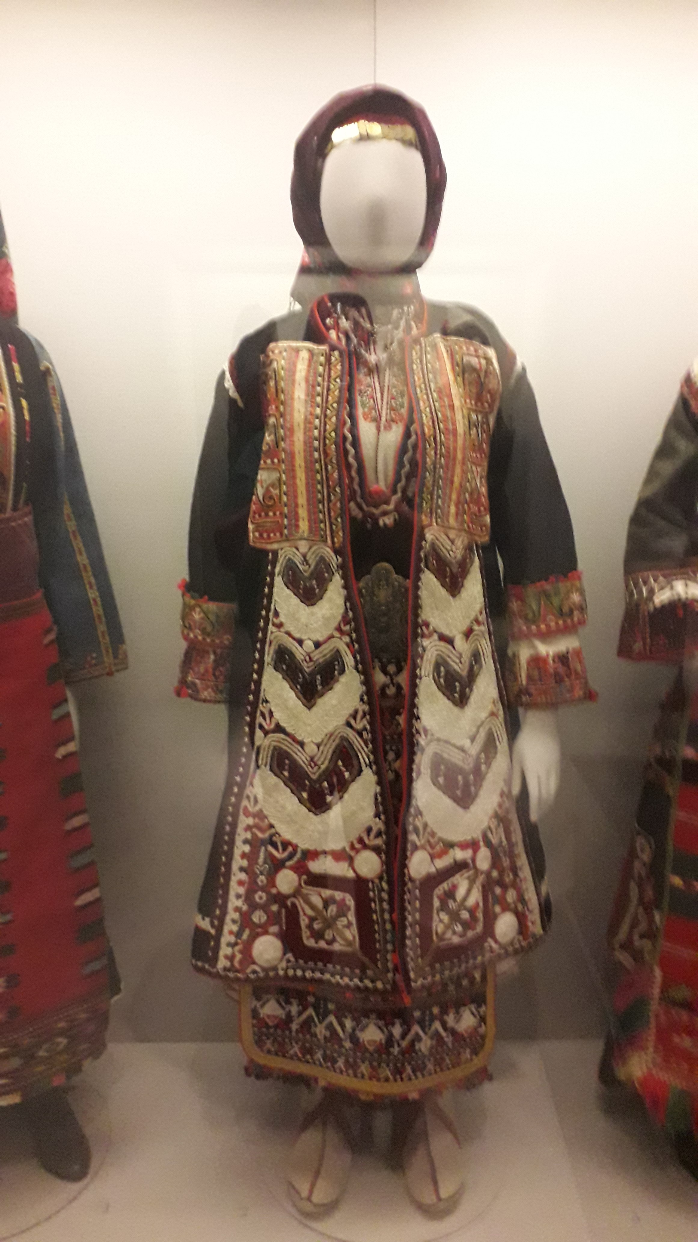 Costume from Uzunkyupru